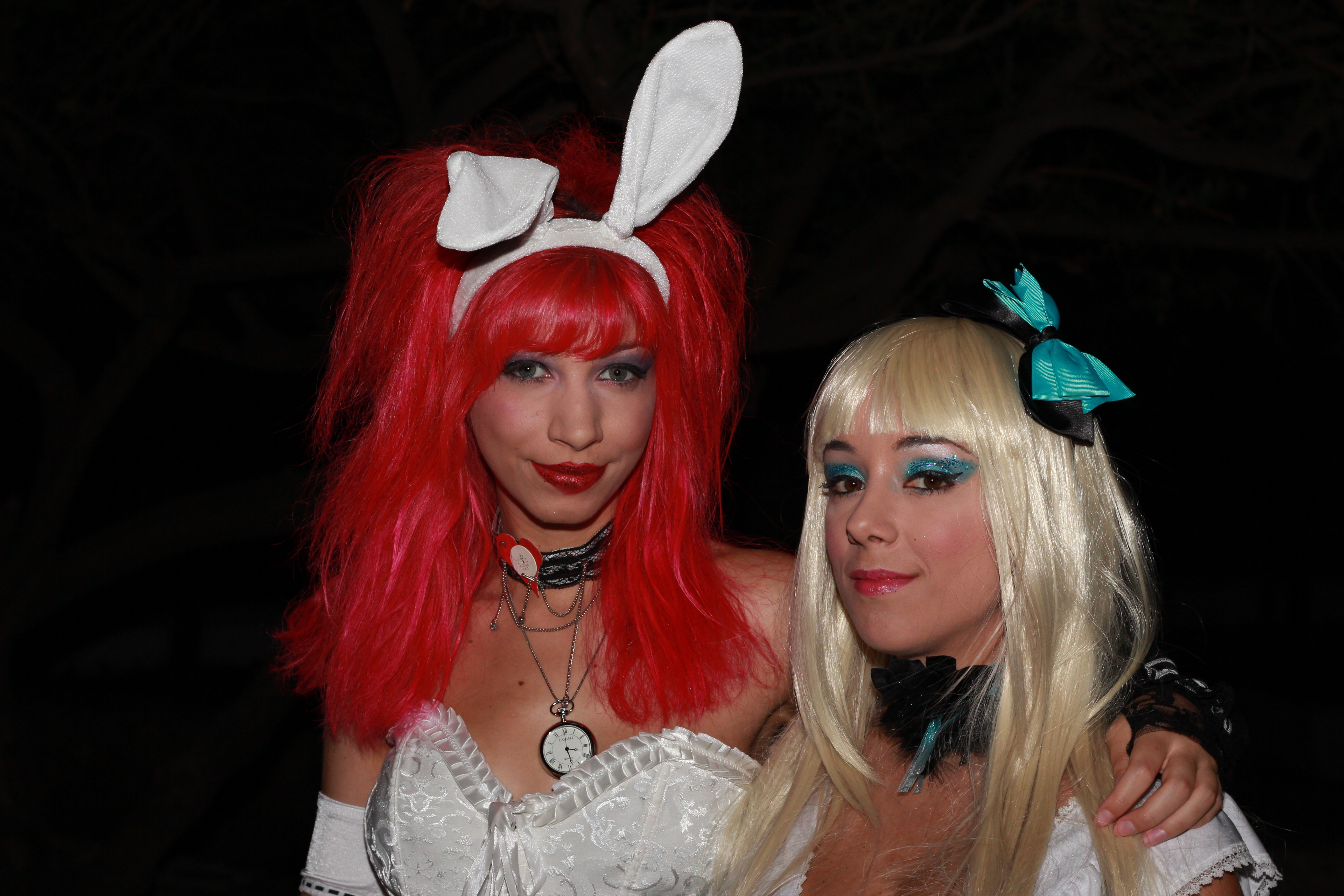 Alice in Wonderland cosplay at the Flisvos public park in Athens, Greece in August 2012 with two photographers present. More pictures available too, photoset is donated to the public domain, ask me to upload more if you find them useful for an article etc. This is the original out-of-camera JPEG. Photo with Canon 60D, EF 50mm f/1.8, and a Nissin Di866 flash. The uploader asserts the following regarding consent of identifiable persons: I personally created this media. All identifiable persons shown specifically consented to publication of this photograph or video.